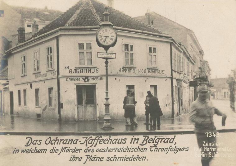 "Kod Albanije" pub in Belgrade, Serbia, where the plan of the assassination was discussed